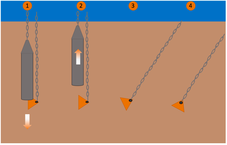 sepla